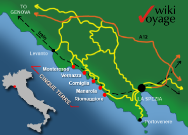 Travel map of Cinque Terre, Italy